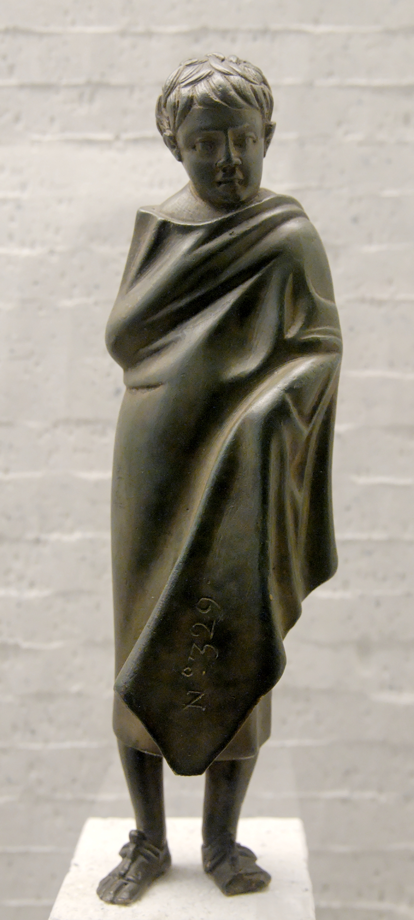 Young man wrapped in his cloak. Bronze figurine, 1st century AD.